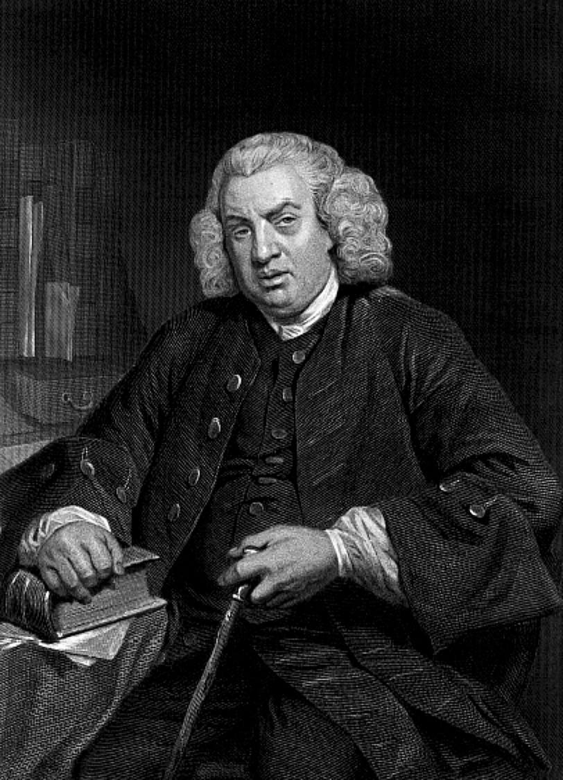 Samuel Johnson. New York: Johnson, Wilson & Company, 1873.